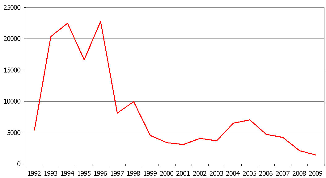 The number of indviduals naturalised in Estonia annually (data source: Citizenship and Migration Board of Estonia)